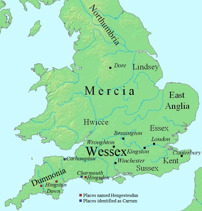 Map of England, showing places of interest to the Egbert of Wessex article. The file was created using DMIS. On that site it is stated that "We do not claim copyright on the images, so you can use them for Wikipedia." Commons:category:Maps of England Commons:category:Wessex